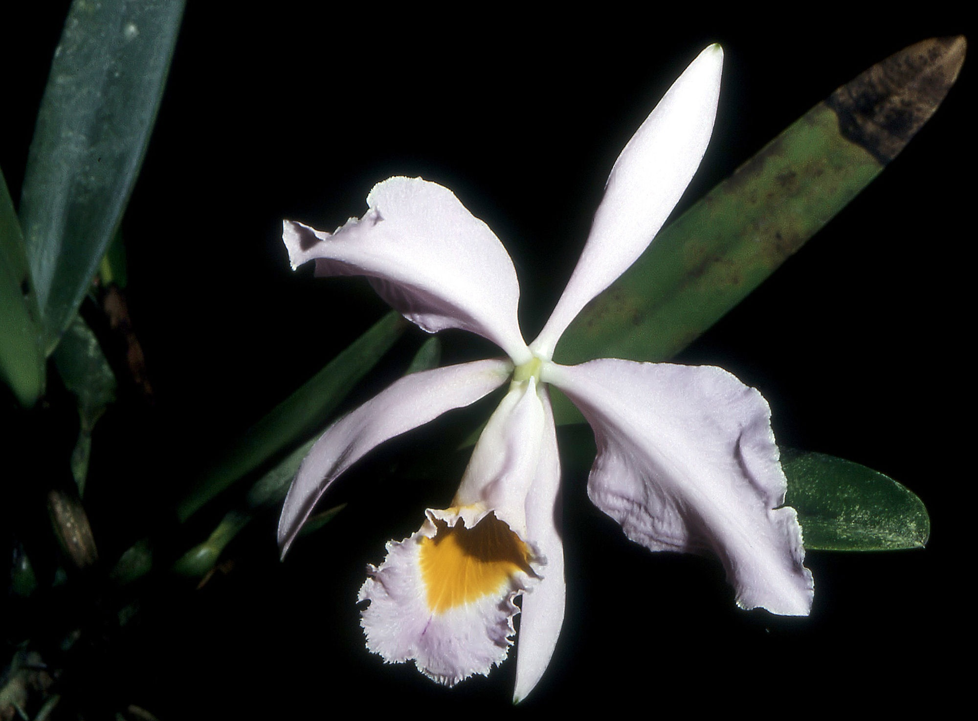 Cattleya wallisii